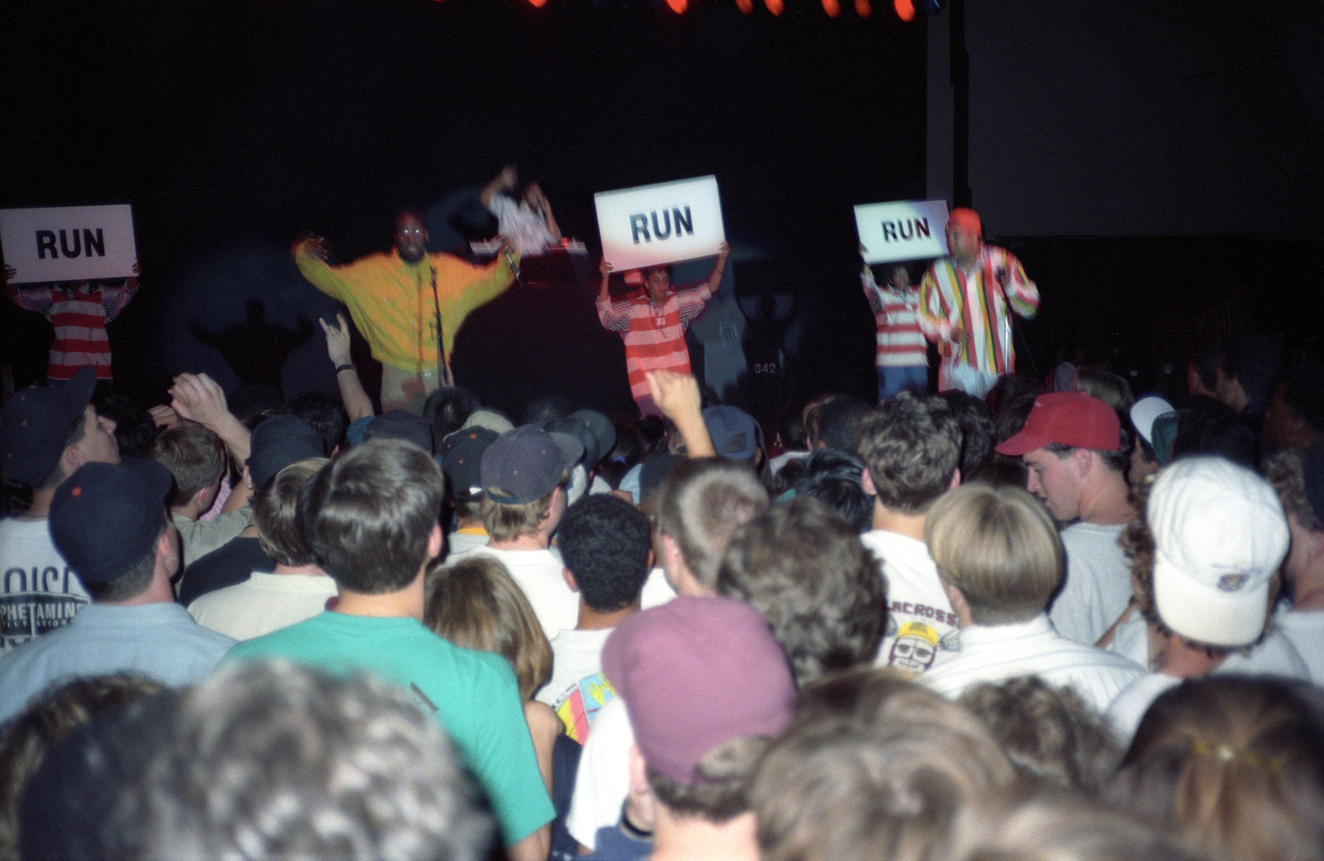 De La Soul performed at P-Party in Dillon Gym in the spring of 1991. (Could have been May)